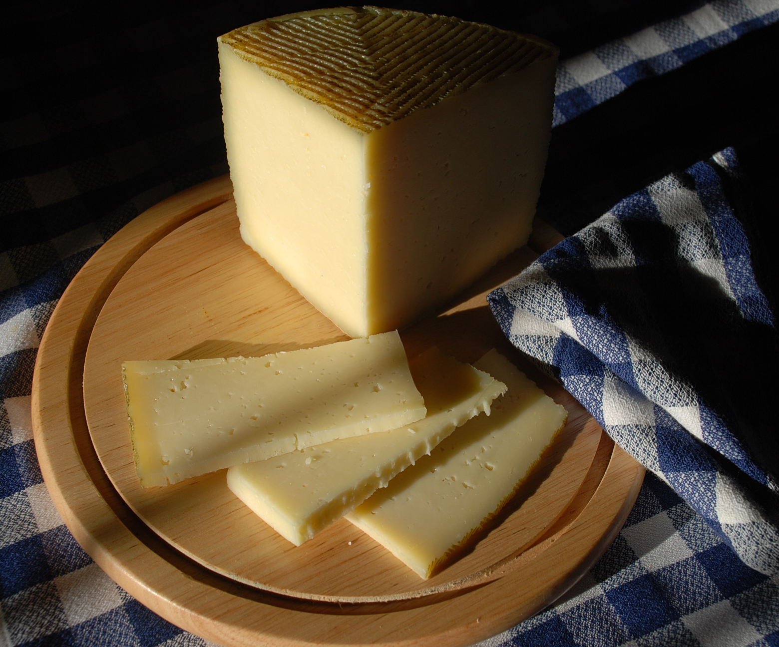 Cheese of Cerrato (Palencia, Castile and León).